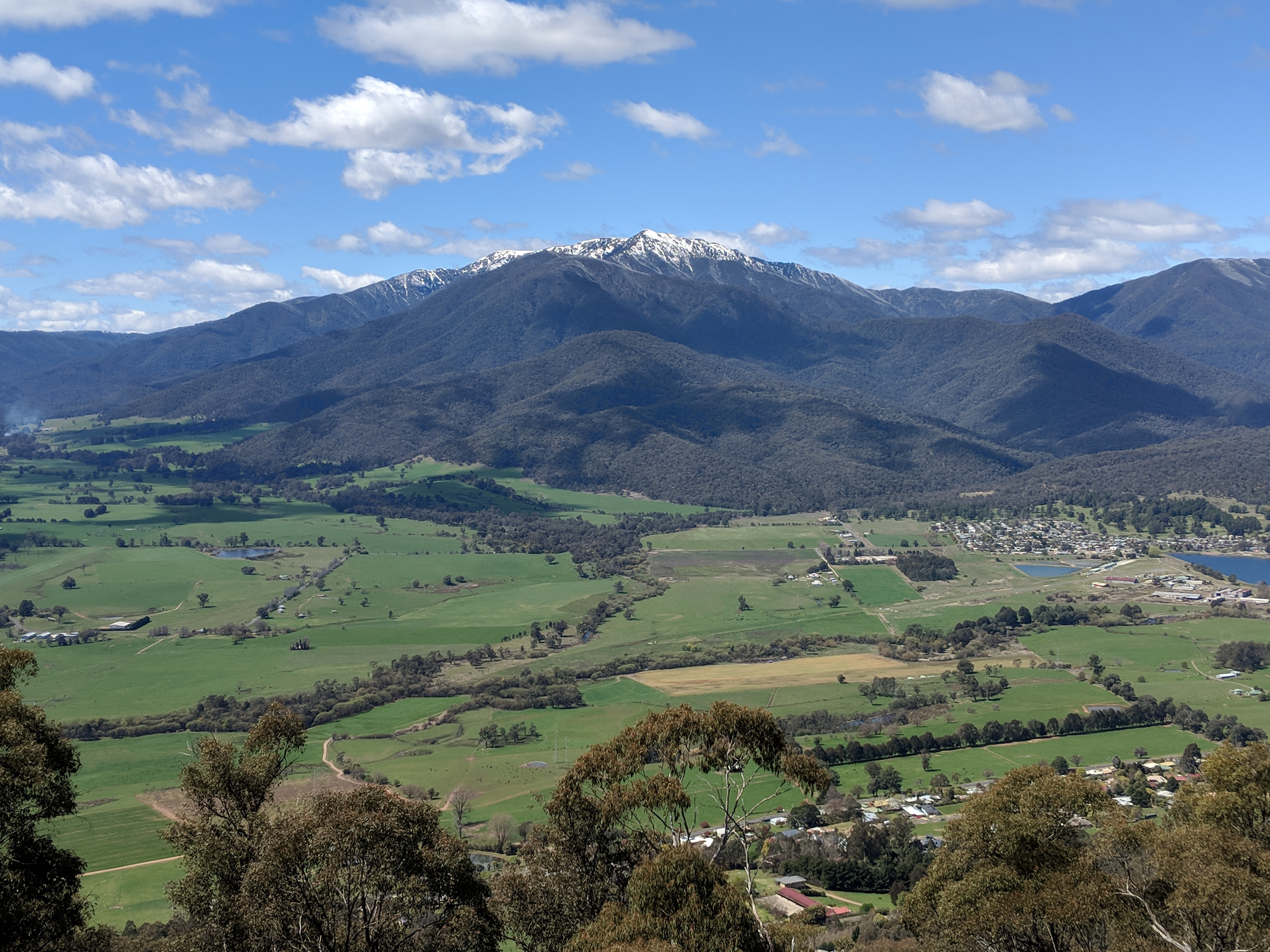 Mt Bogong, Bright, Victoria